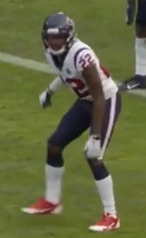 Gareon Conley 2019. Image from video A.J. Brown Ditches Defender to Score TD | Nissan Pylon Cam, ~ 00:16